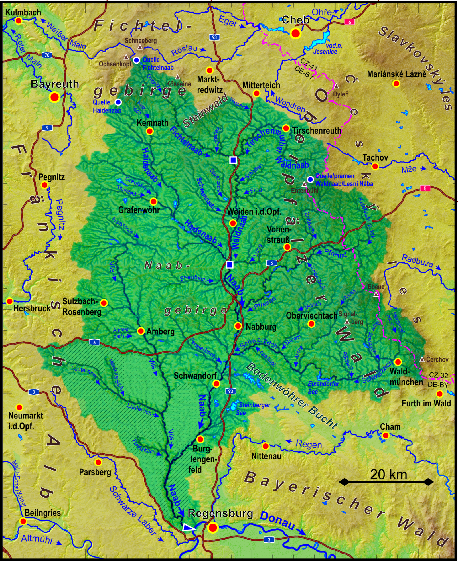 Catchment area of the Naab river